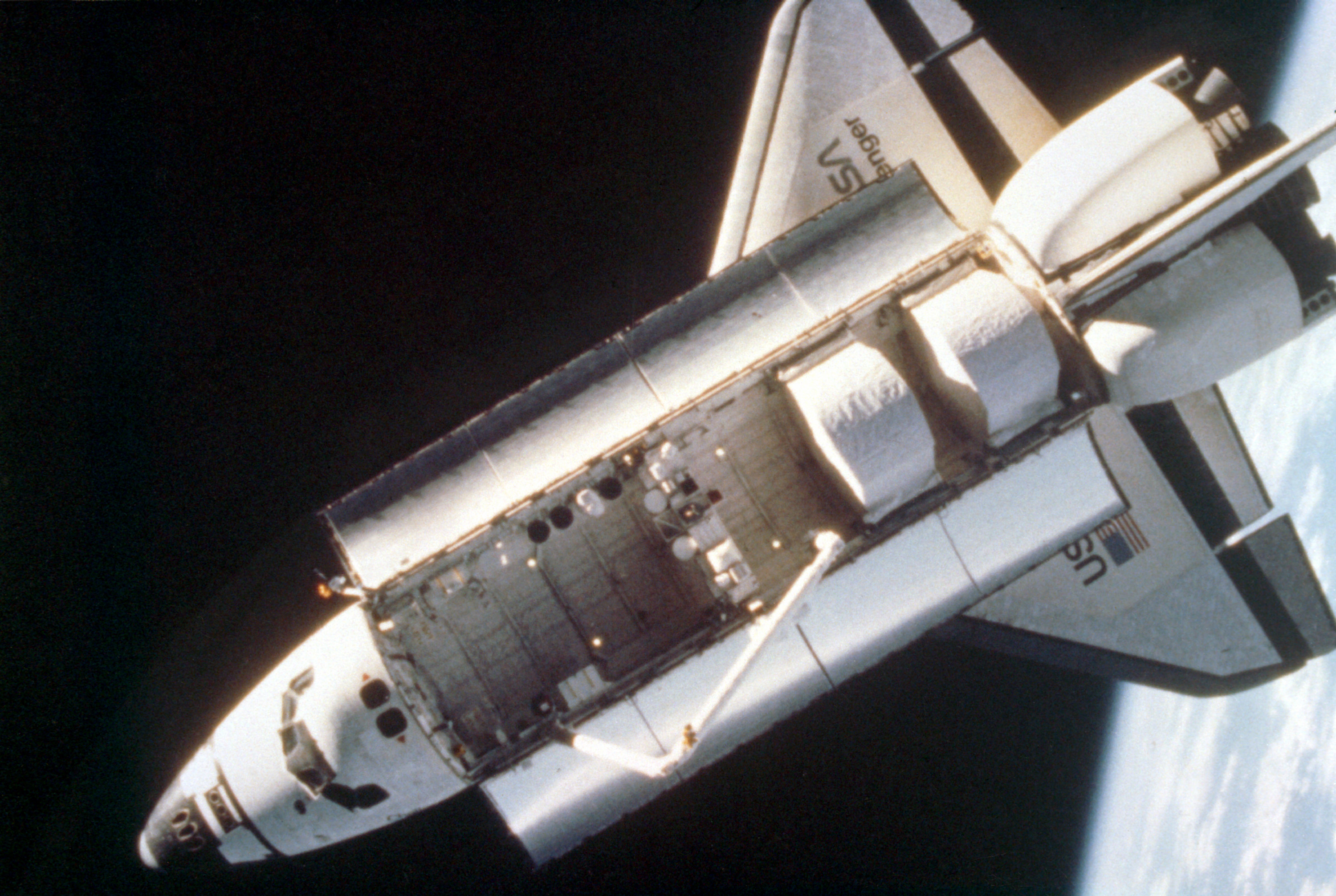 An overhead view of the space shuttle Challenger taken by a fixed camera mounted on astronaut Bruce McCandless's helmet during the first extravehicular activity (EVA) using the nitrogen-propelled, hand-controlled, manned maneuvering unit (MMU). The MMU is a device which allows astronauts to move freely in space without a tether.